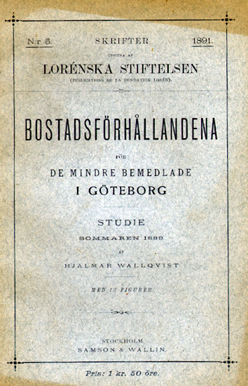 Cover of book published 1891: Bostadsförhållandena för mindre bemedlade i Göteborg